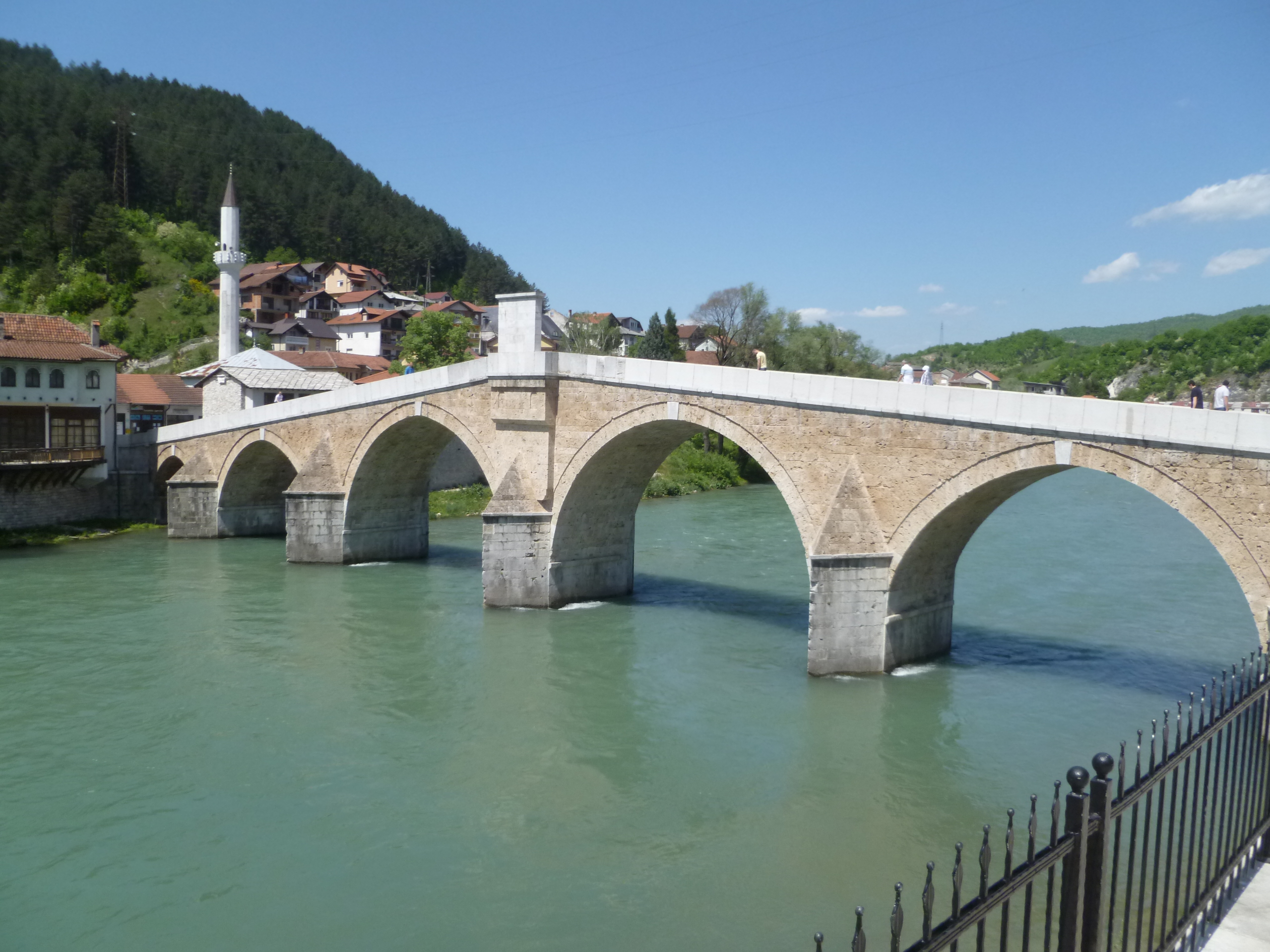 The bridge over the river Neretva at Konjic, Bosnia and Herzegovina